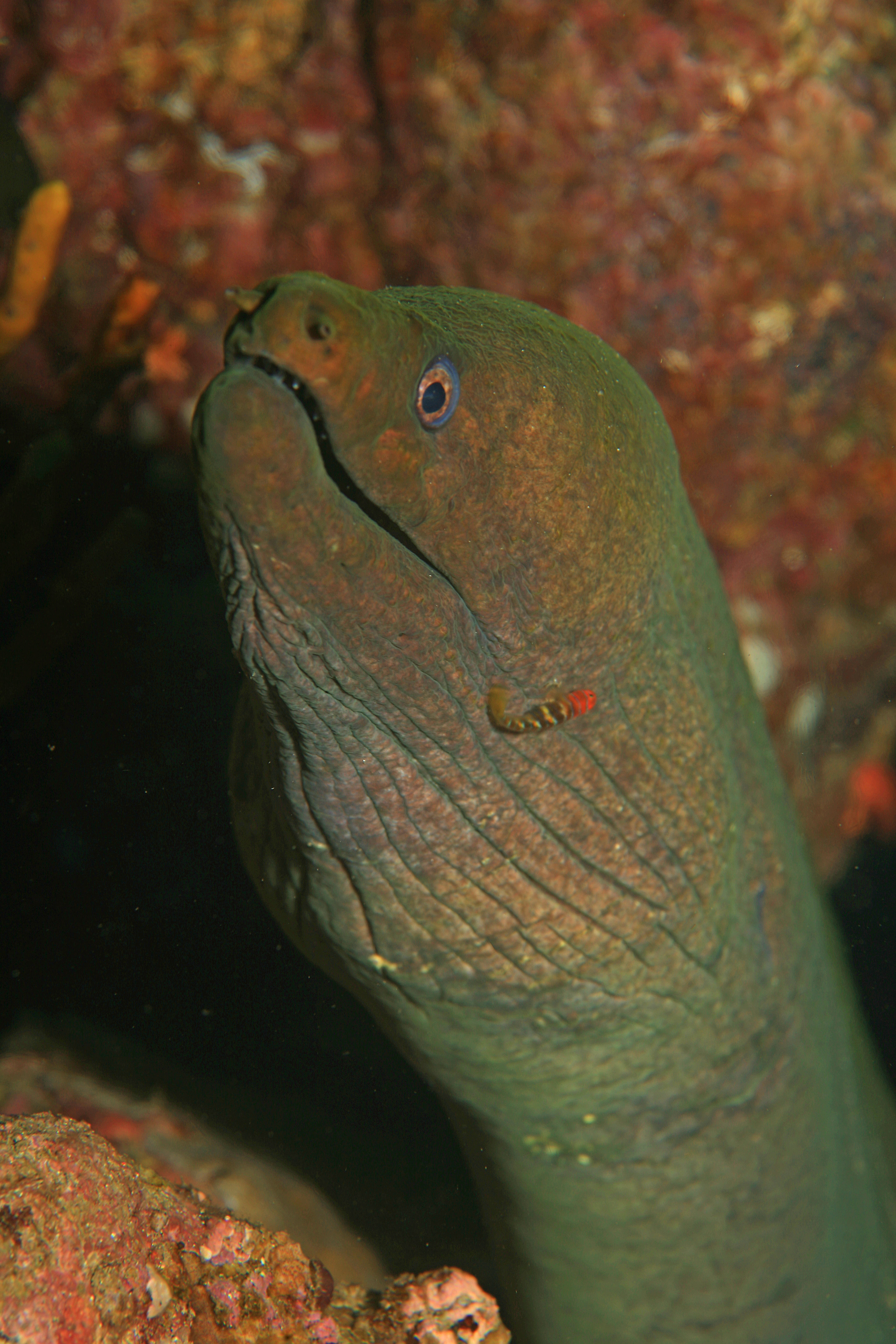 This Panamic Green Moray (Gymnothorax castaneus) is enjoying the services of an Inornate Cleaning Goby (Tigrigobius digueti - syn: Elacatinus inomatus), visible on the moray's neck.The cleaner fish gets to eat all of the "cooties" it can find and gets full protection from the eel. And the eel gets a good scrubbing. Both animals benefit.Mali Mali dive site in Coiba National Park, Panama